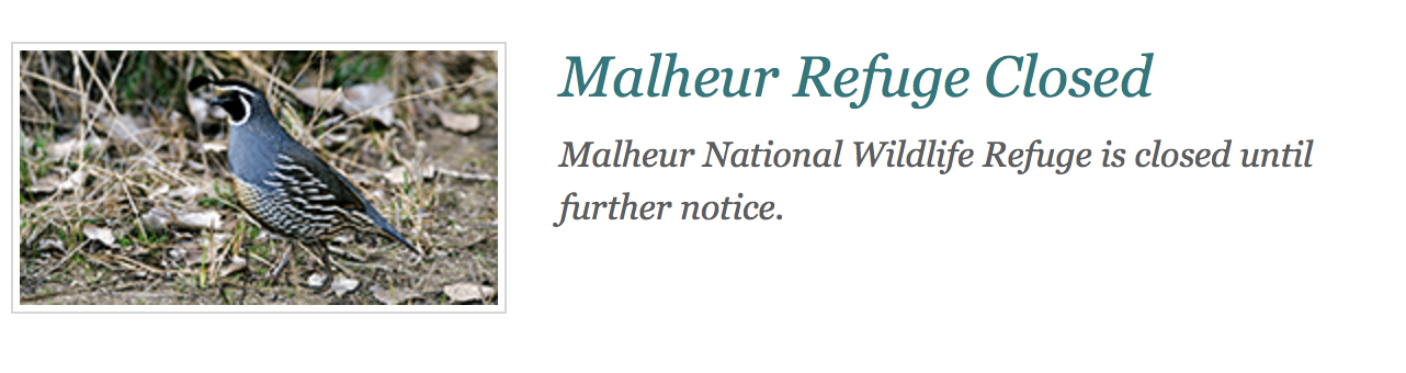 See Occupation of the Malheur National Wildlife Refuge for more details.